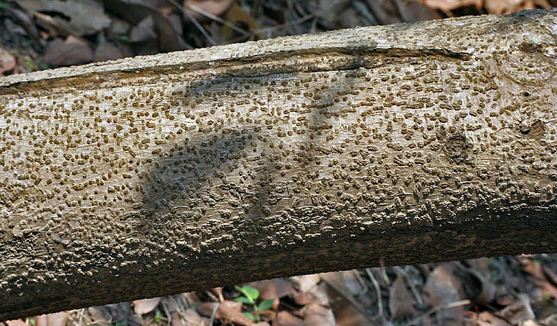 (West Indian Mountain Rose) Brownea coccinea in Kolkata, West Bengal, India.